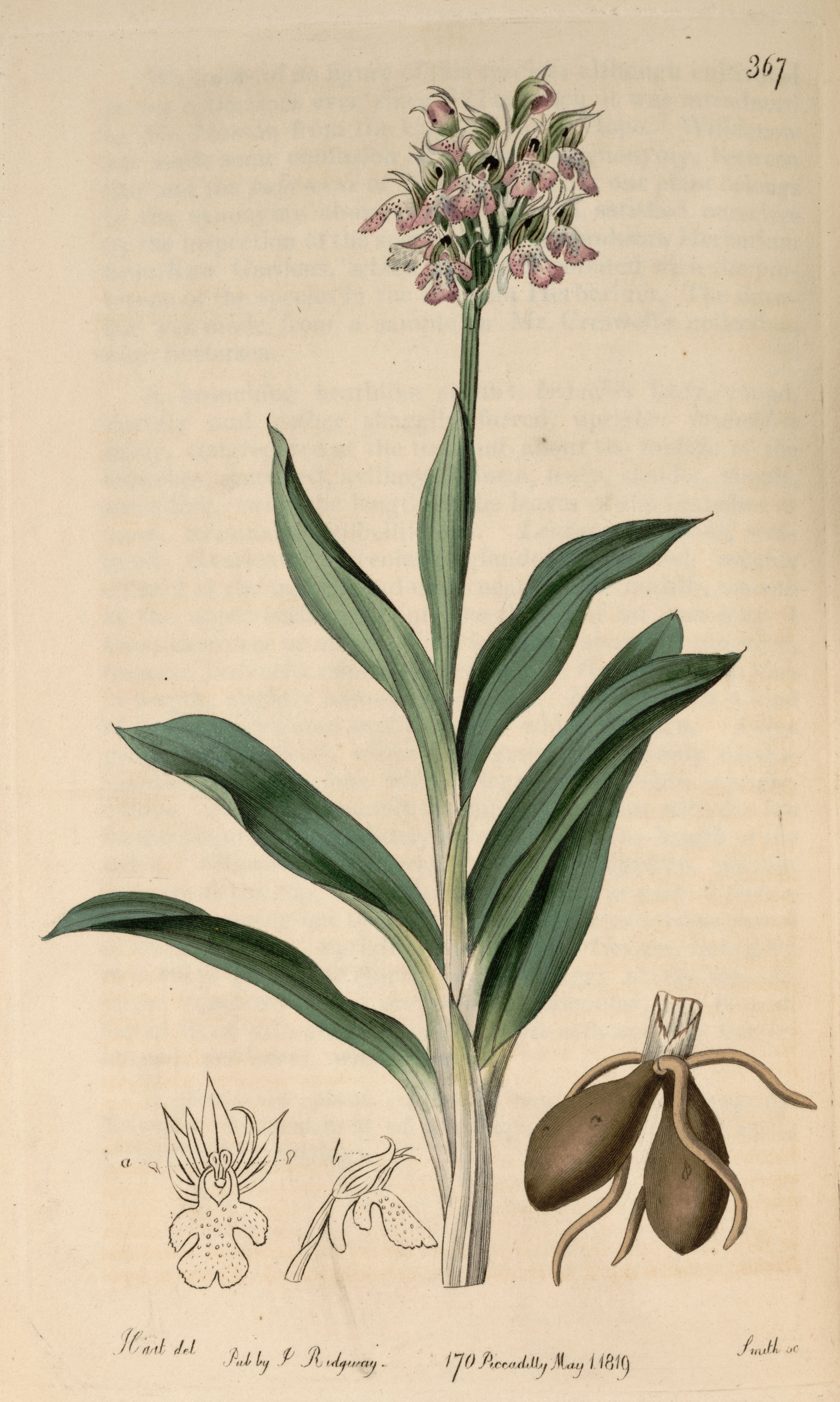 Illustration of Neotinea tridentata subsp. tridentata (as syn. Orchis variegata All.)